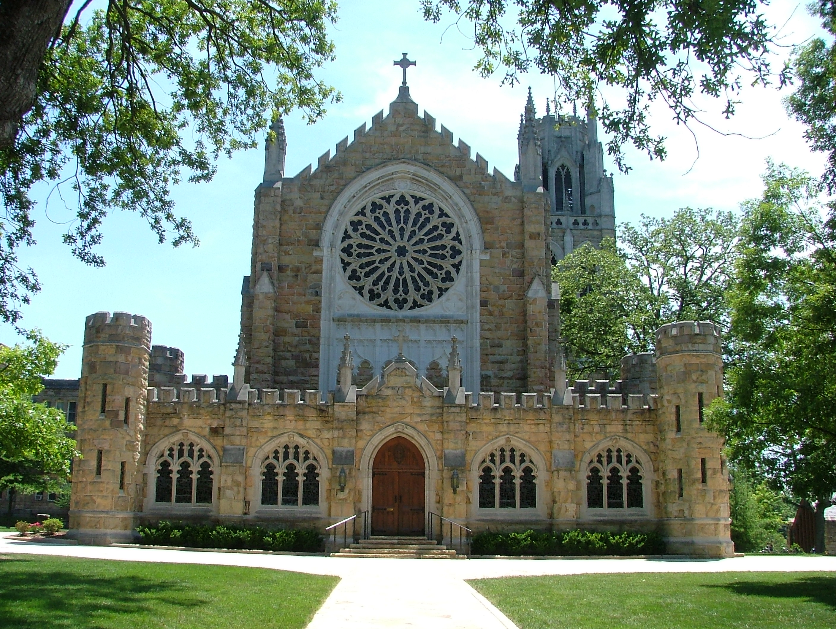 All Saints' Chapel, The University of the South